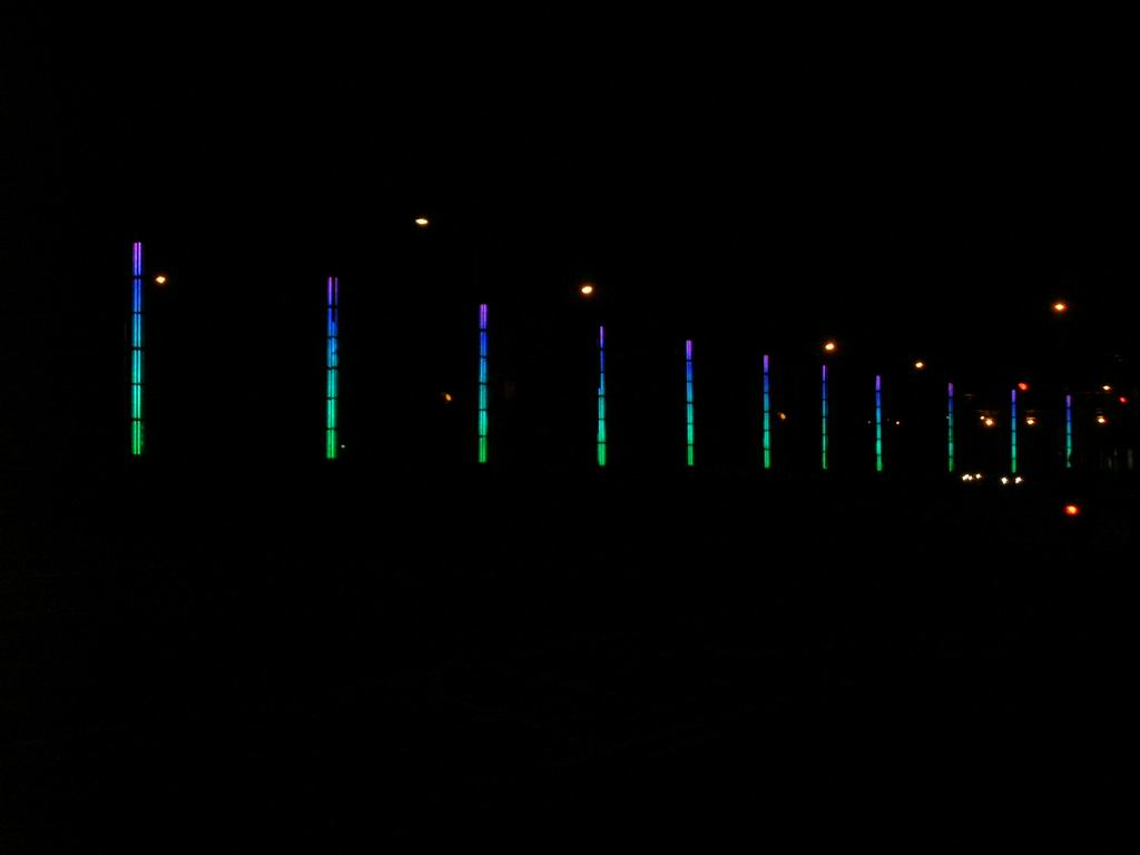 The Light Decoration at the enterance of Hsinchu Science and Industrial Park.